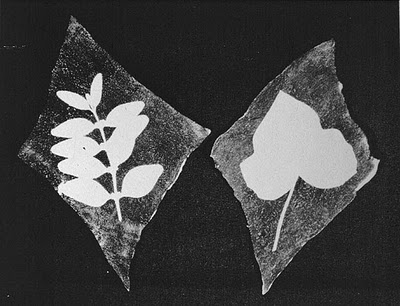 Photograms like these are made without a camera. They record the shadows cast by actual objects placed on or near a sheet of photographic paper, which darkens where it is exposed to light. The first reliably documented images of this kind were made by Thomas Wedgwood around the year 1800. As a result he is sometimes called "The First Photographer". Wedgwood's primary goal was to capture the images formed by a lens in a camera obscura, but the chemically treated paper he created was not sensitive enough for that purpose. He did successfully capture shadow images of the type shown here, but he was unable to chemically "fix" them: they could only be viewed for short intervals in subdued light because further exposure to light eventually darkened them all over. As early as the 1860s and as recently as 2008, it was occasionally claimed that some of Wedgwood's experimental photographs still survived, but no such claims have ever been proved and some have been very definitely disproved.